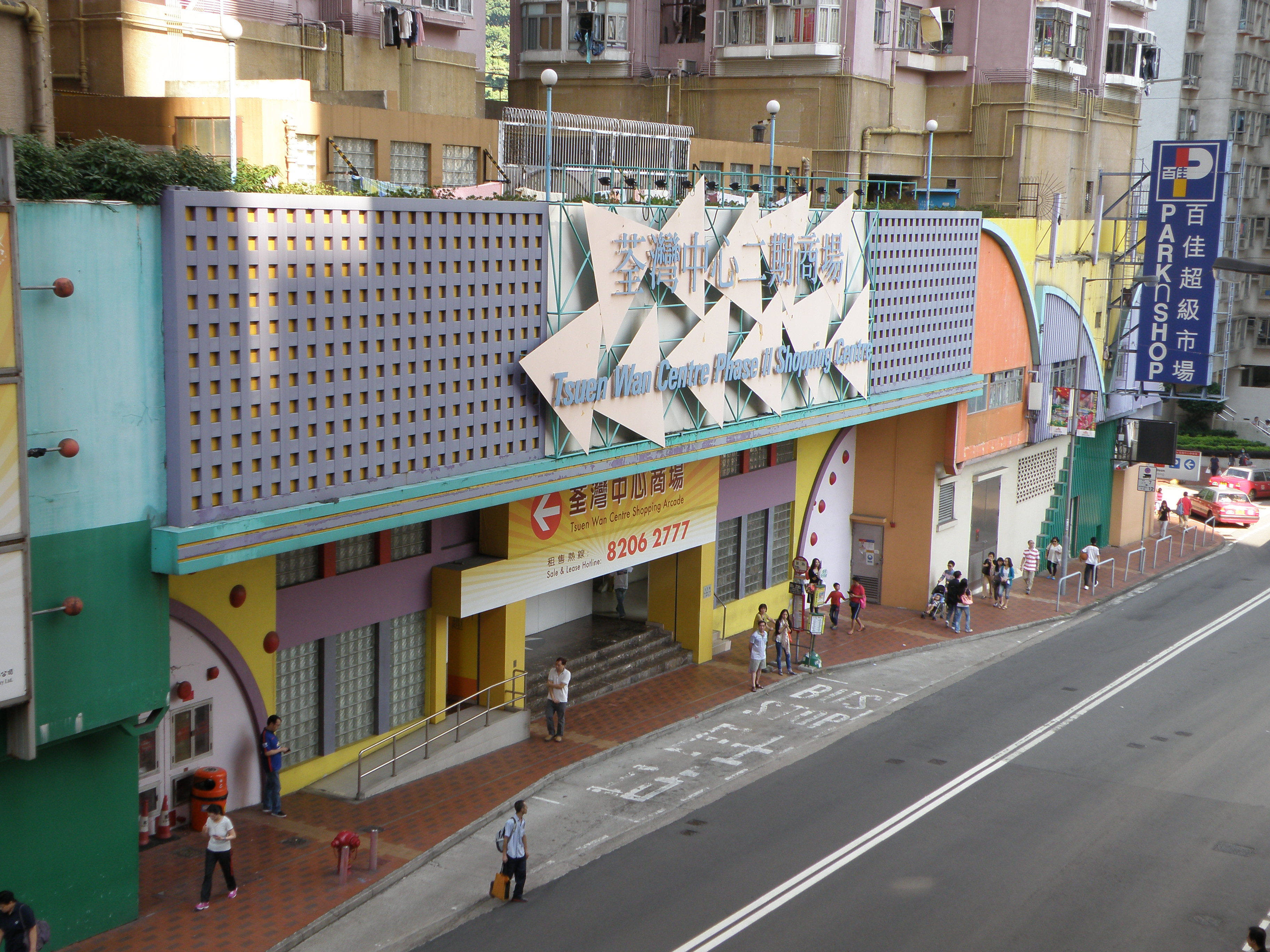 Tsuen Wan Centre Phase II Shopping Centre in Tsuen Wan, Hong Kong.